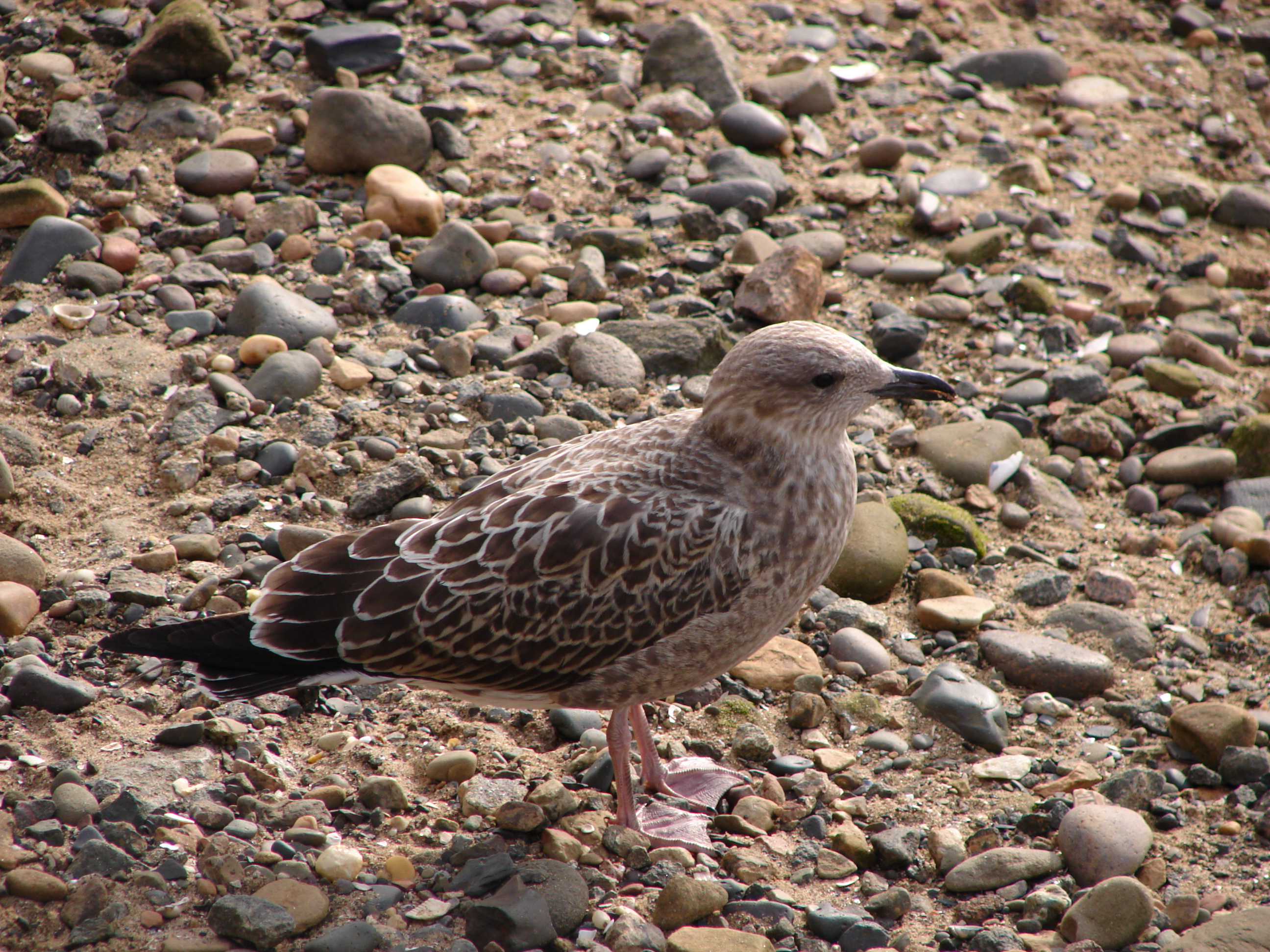 A juvenile Lesser Black-backed Gull with plumage blending with coastal habitat